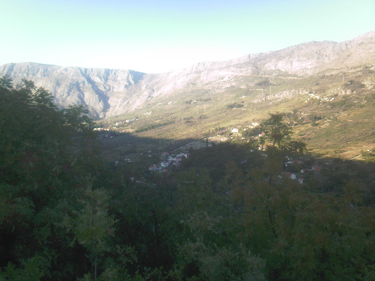 Kneživa village near Dubrovnik